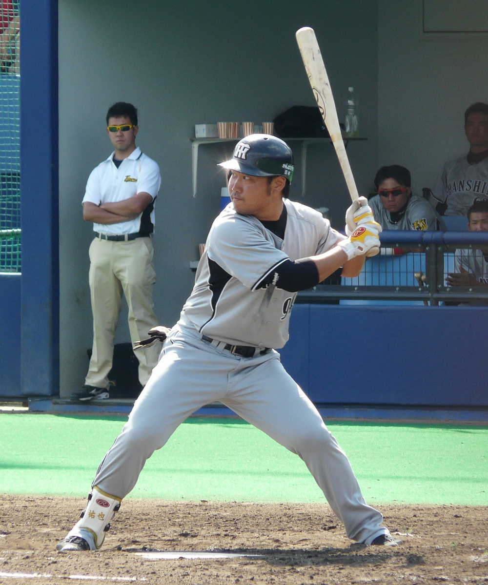 HT-Yuya-Nohara20110908